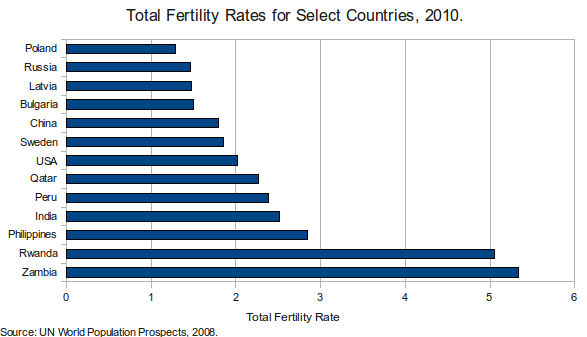 This is a bar chart showing the Total Fertility Rates for select countries (some low, some high) in 2010. The source is the UN World Population Prospects: 2008 Revision.